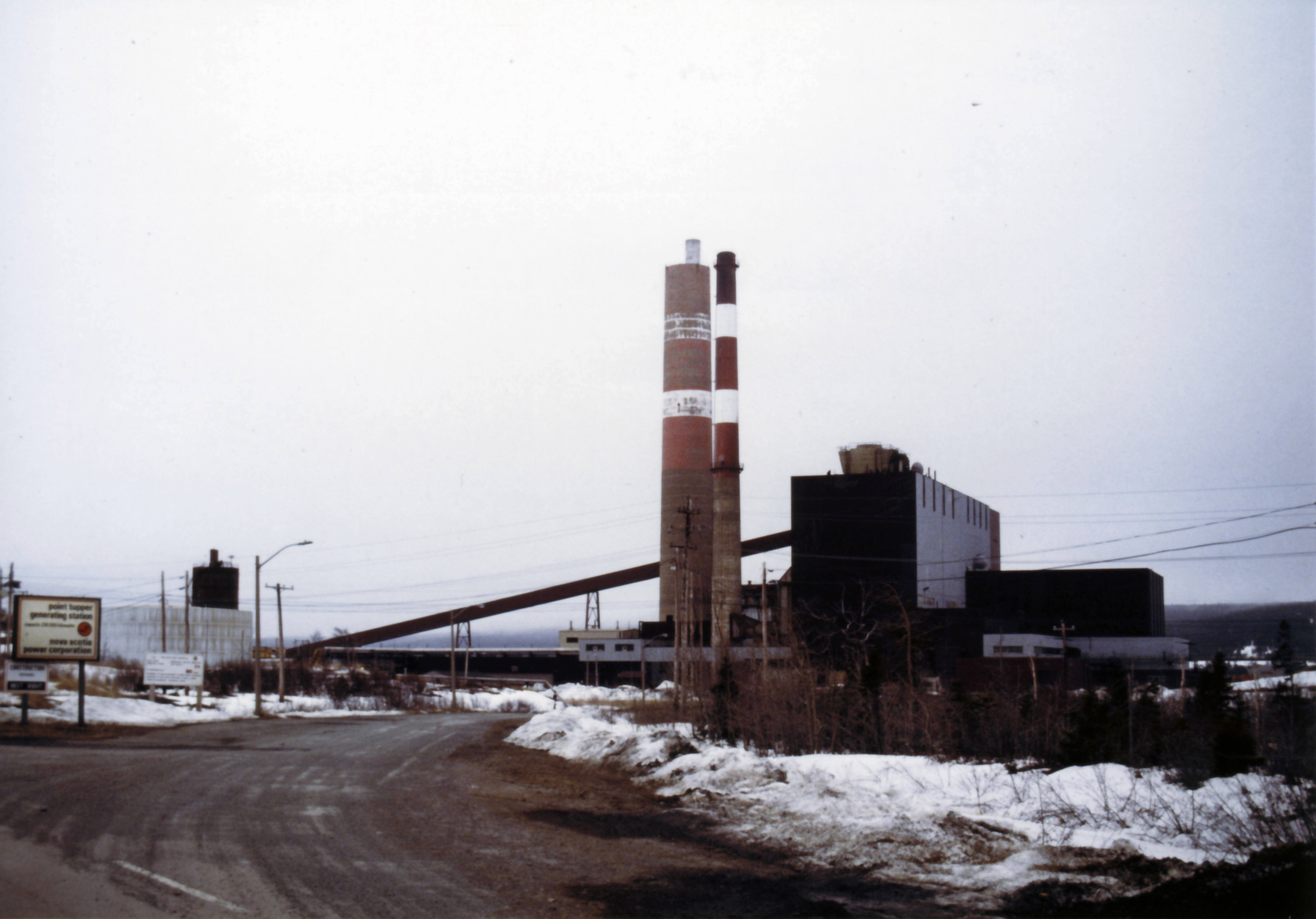 Point Tupper Generating Station, Nova Scotia Power Corporation, Port Hawksbury, Nova Scotia, Canada